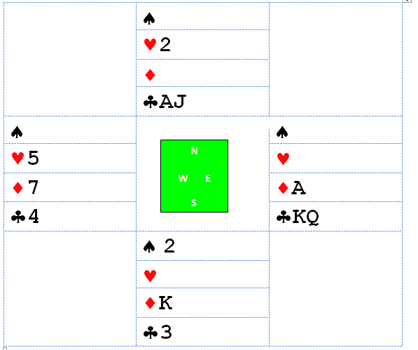 an Automatic Squeeze play in Bridge